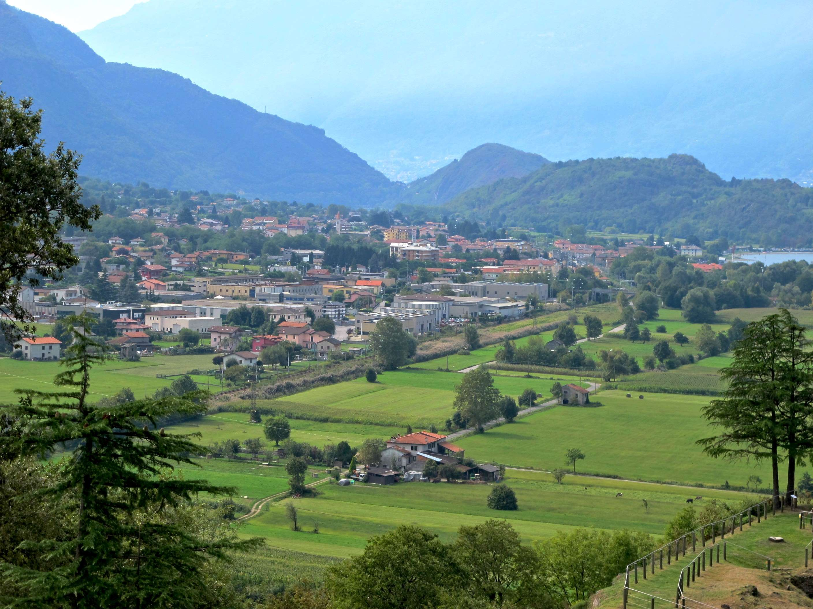 Italy, Lombardy, Lake Como, Colico